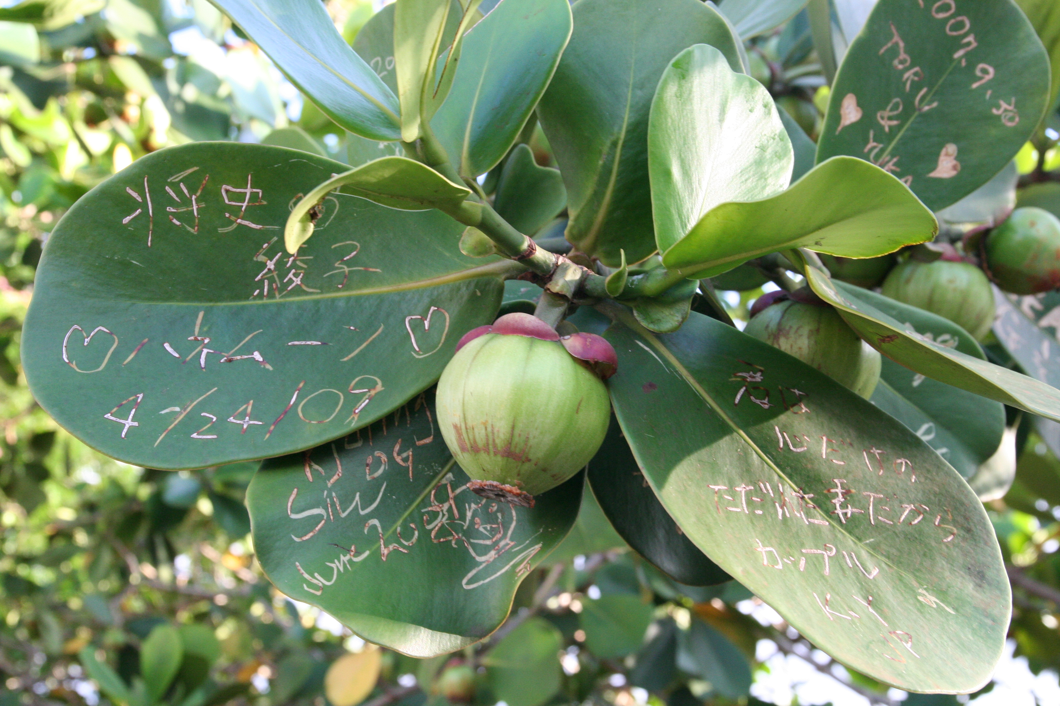 Autograph Tree